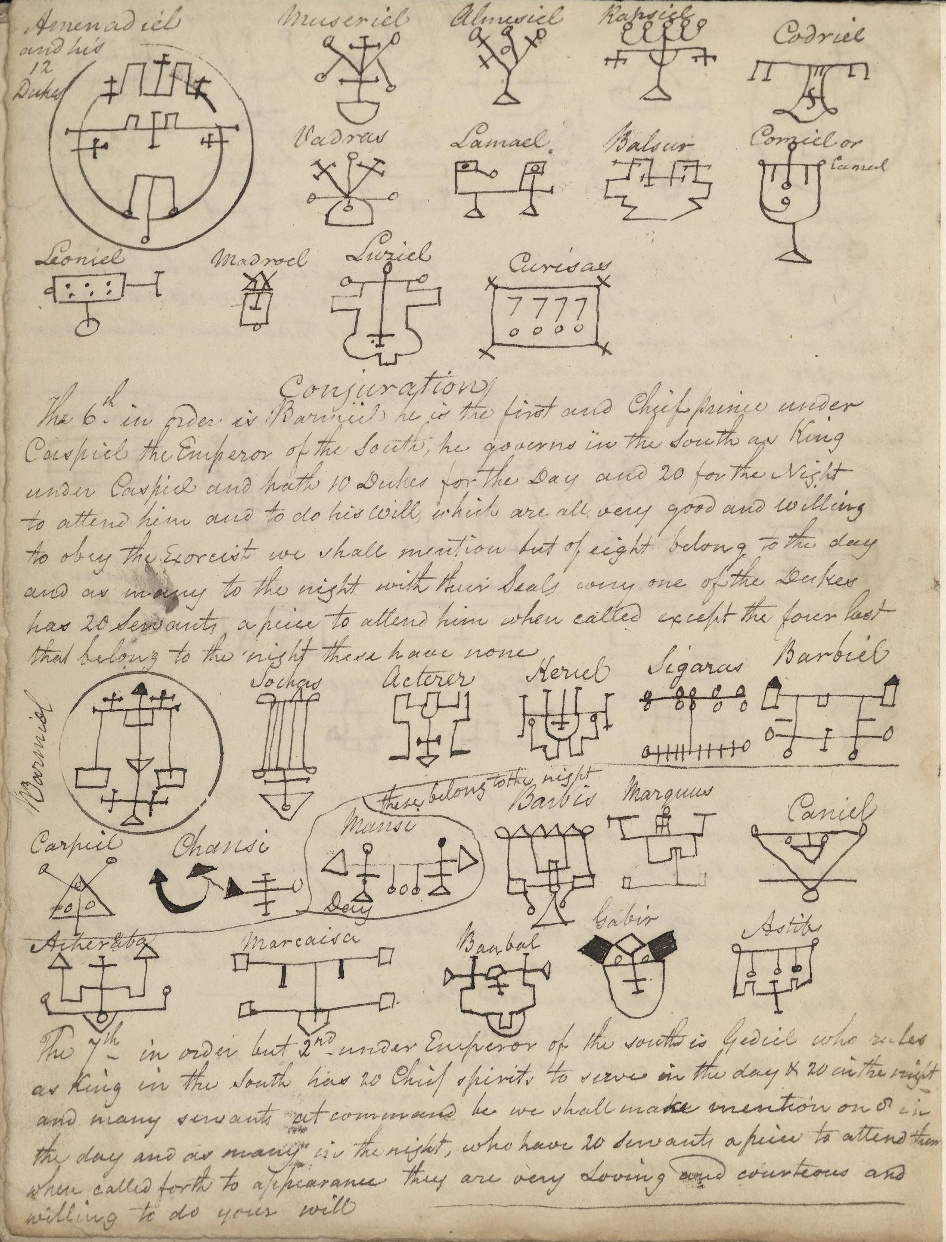 A manuscript volume from the library of John Harries (d. 1839), of Pantcoy, Cwrtycadno, Carmarthenshire, astrologer and medical practitioner, containing many illustrated spells and astrological signs. 4631466